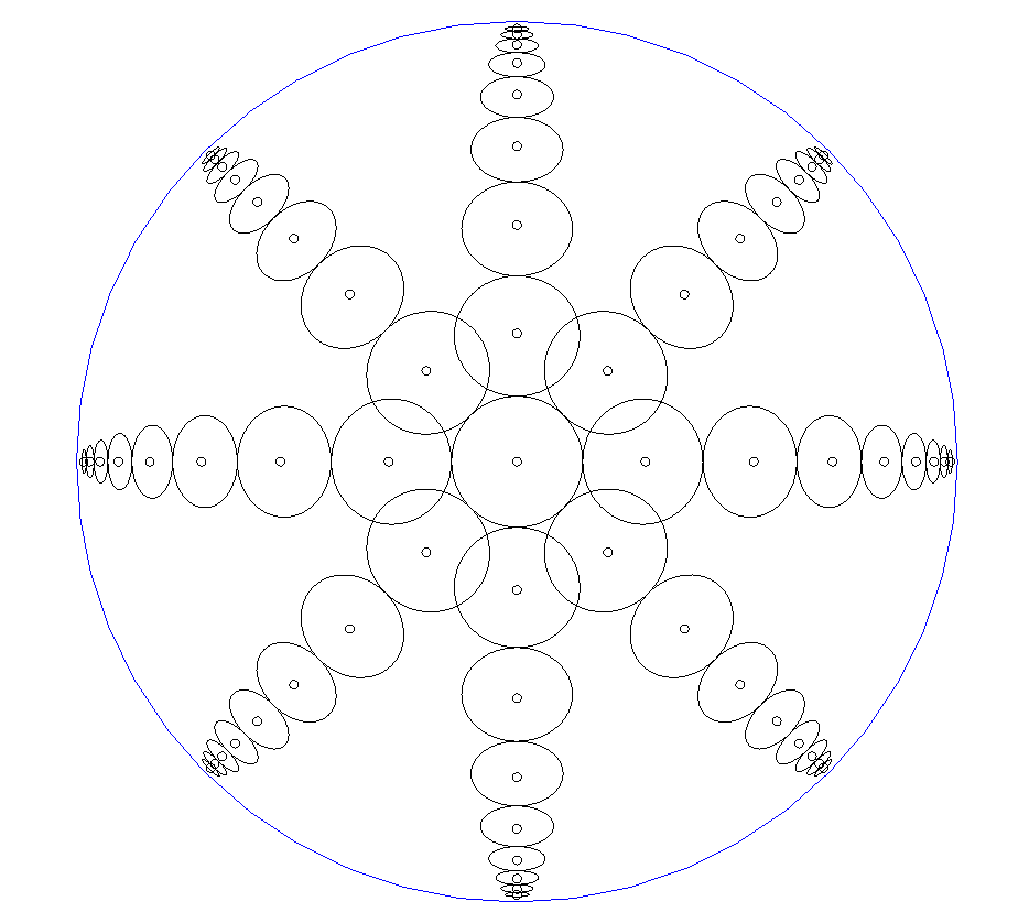 Circles in the Klein disk model